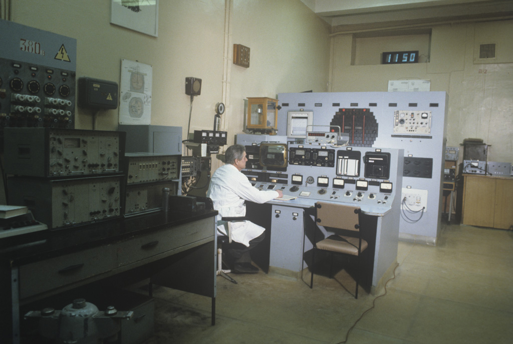 “Control panel of the first Russian nuclear reactor”. Control panel of the first Russian nuclear reactor launched in December 1946. The Kurchatov Institute of Atomic Energy, now the Kurchatov Institute Russian Research Centre.